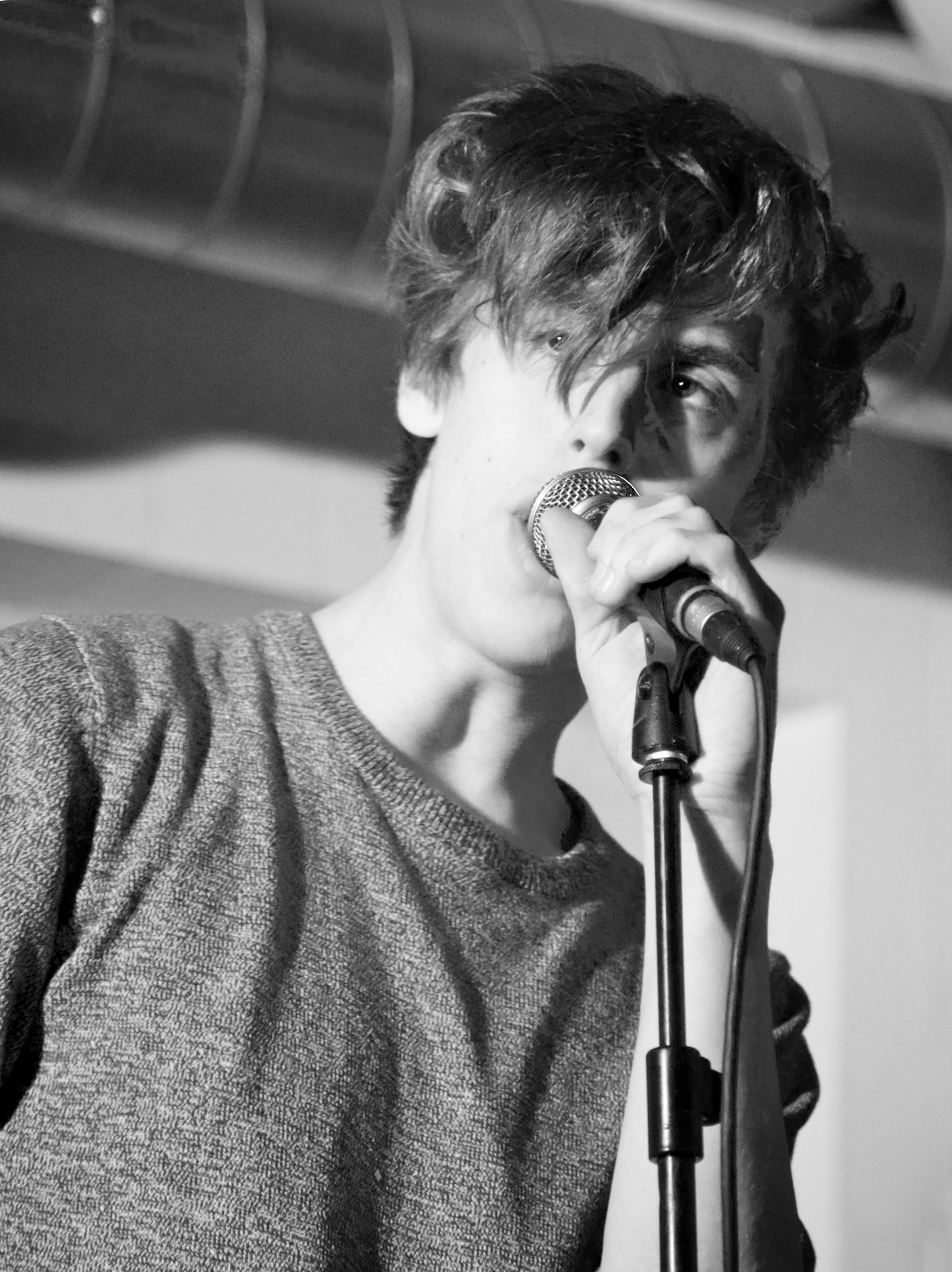 Jordan Gatesmith, lead singer of the band Howler during their performance at Rough Trade East, London 28th January 2012